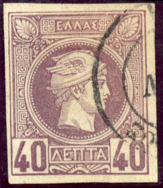 Greek small Hermes head stamp, Belgian print, Scott Cat. no. 70 (1888).